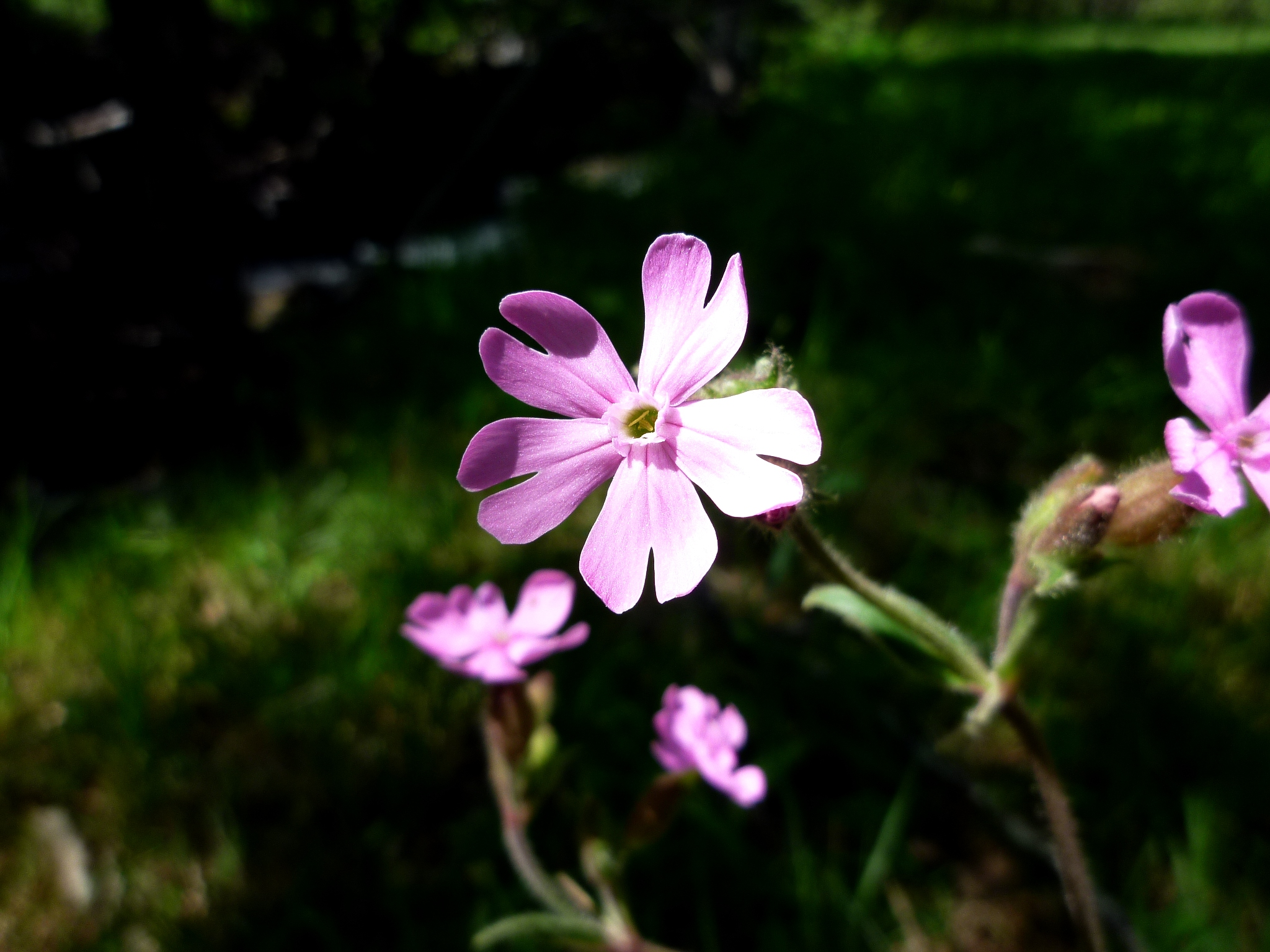 Silene dioica. In Lladorre (Pallars Sobirà- Catalunya). To 1.380 m. altitude